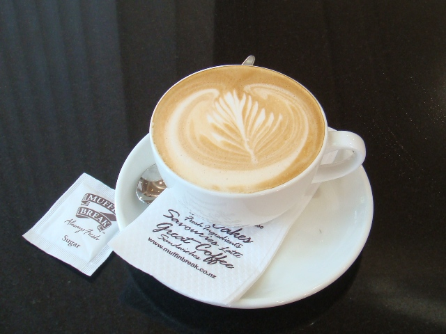 A flat white, served in a Christchurch cafe.